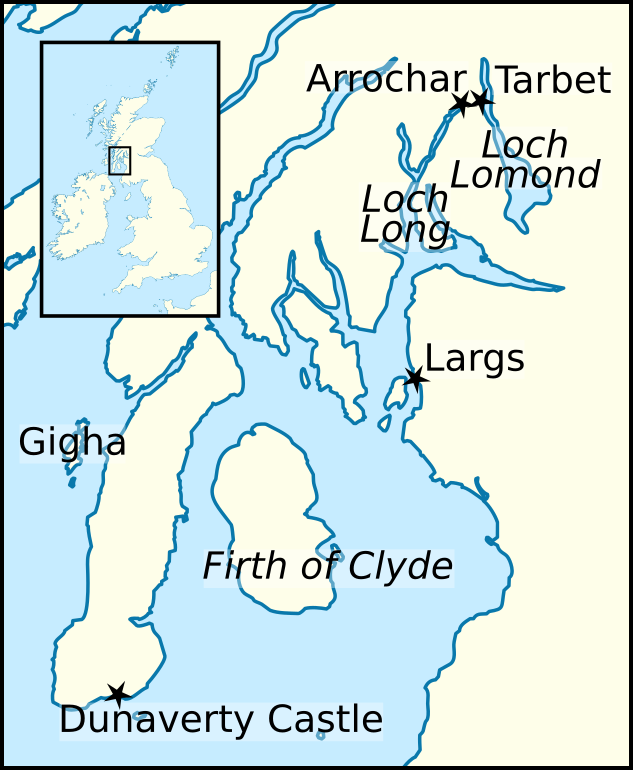 Map created for the Wikipedia article concerning Dubhghall mac Ruaidhri, King of Argyll and the Isles (died 1268).